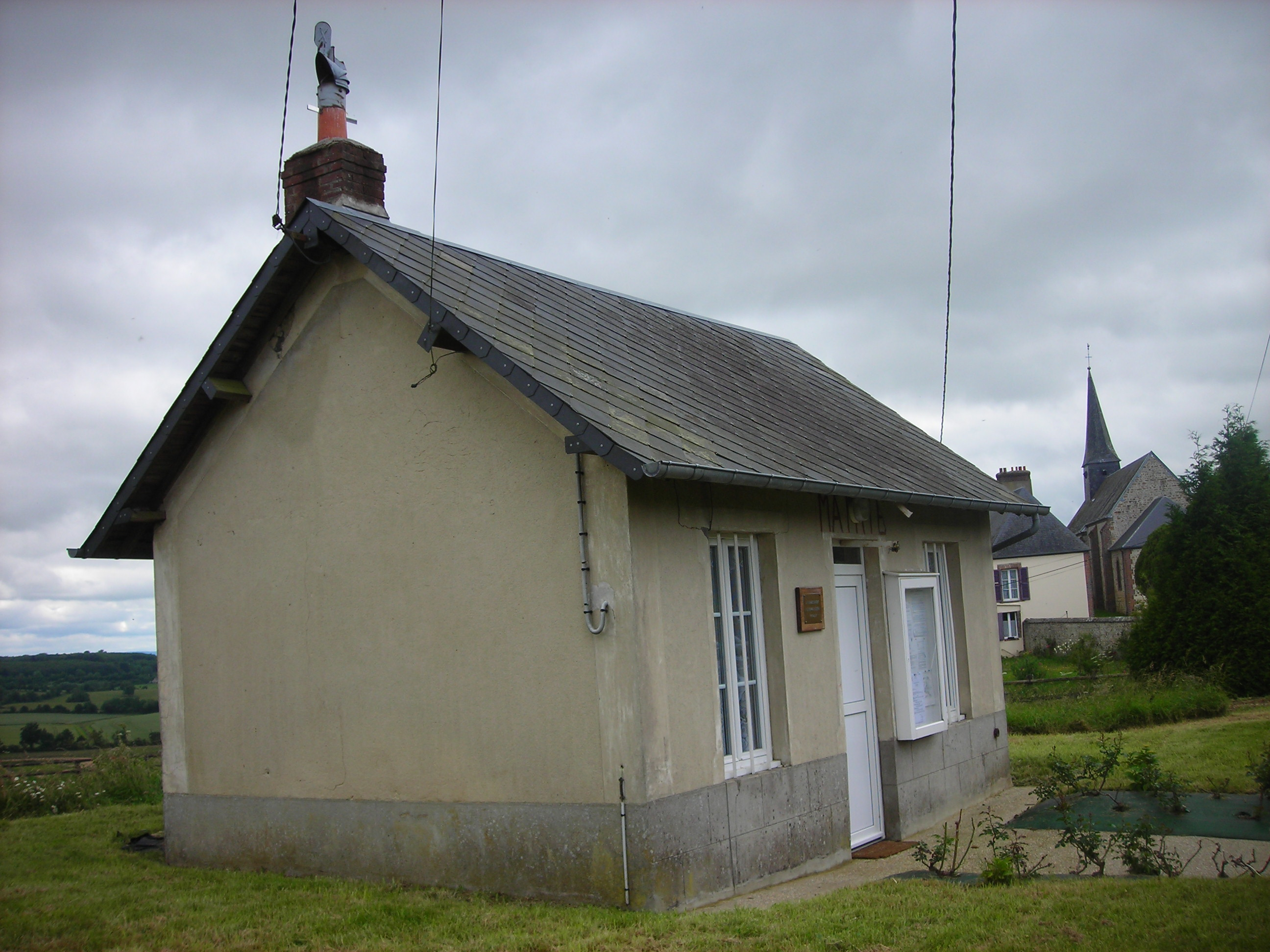 Town hall of Les Authieux-du-Puits (France).